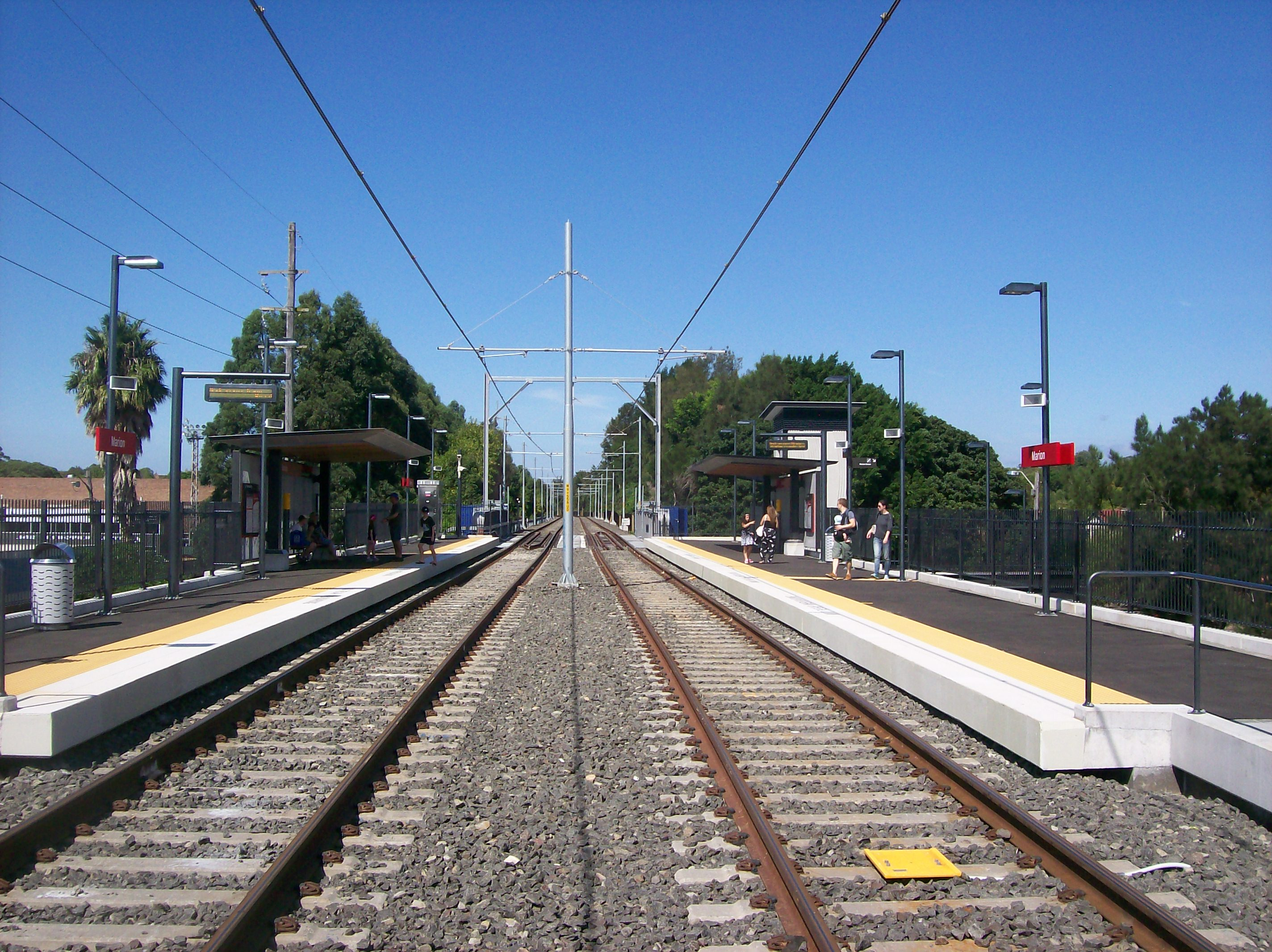 Marion light rail station March 2014